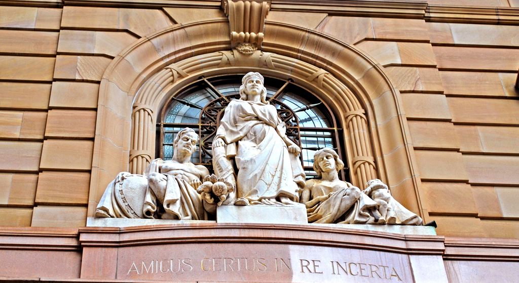 Location: Corner Edward and Queen Street, MacArthur Chambers (former AMP building) Artist: Harvey (created scale model), Fred Gowan (carved sculpture) Materials: Sicilian marble Installation date: 1934